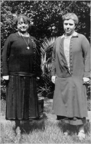 Victoire Cappe and Maria Baers, two important Belgian feminists from the beginning of the 20th Century.